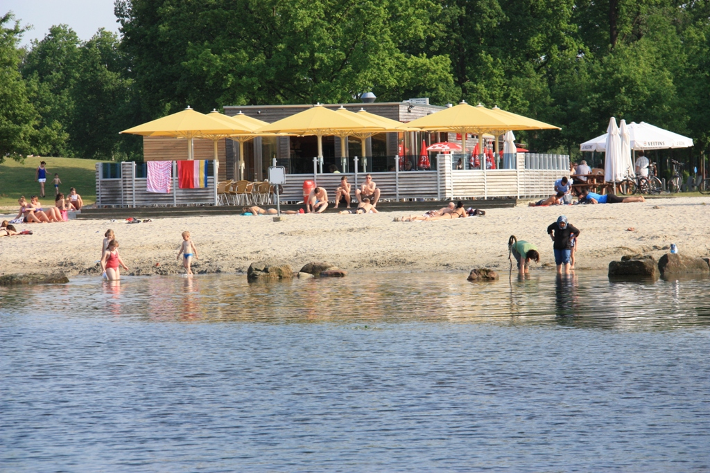 Haddorfer See in der Gemeinde Wettringen. Offene Badestelle in der Nähe vom Campingplatz und Naherholungsgebiet.